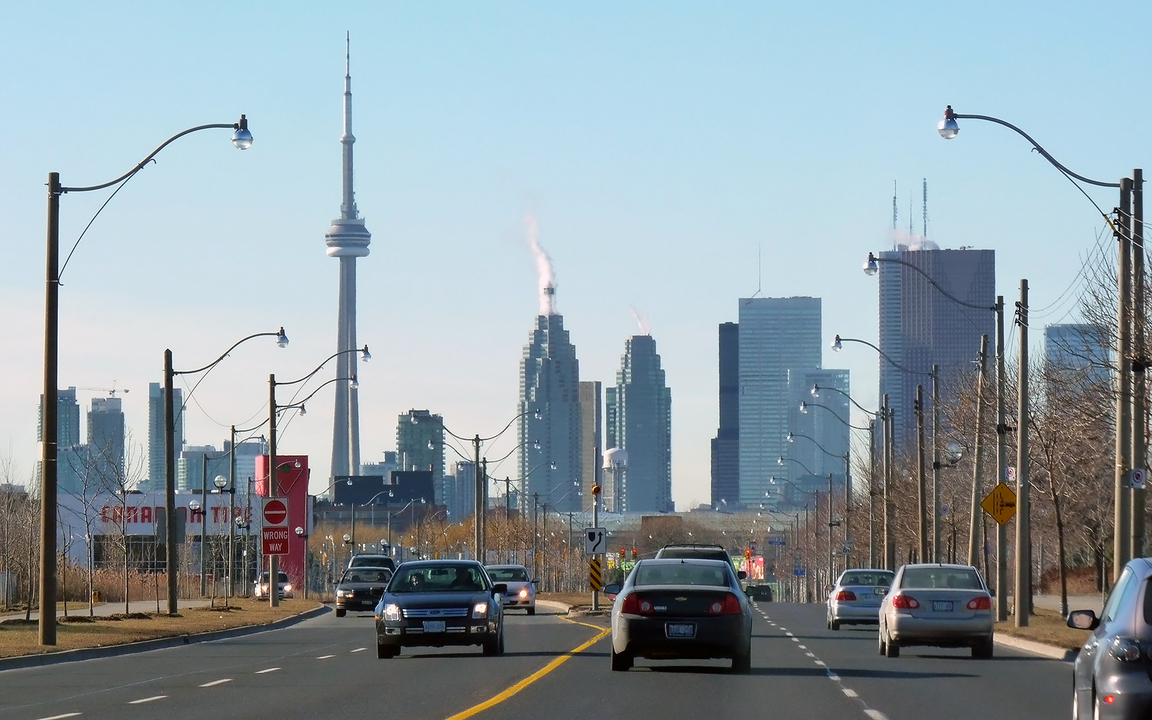 Lake Shore Boulevard East, east of Leslie Street, looking west. - Toronto, Ontario, Canada.